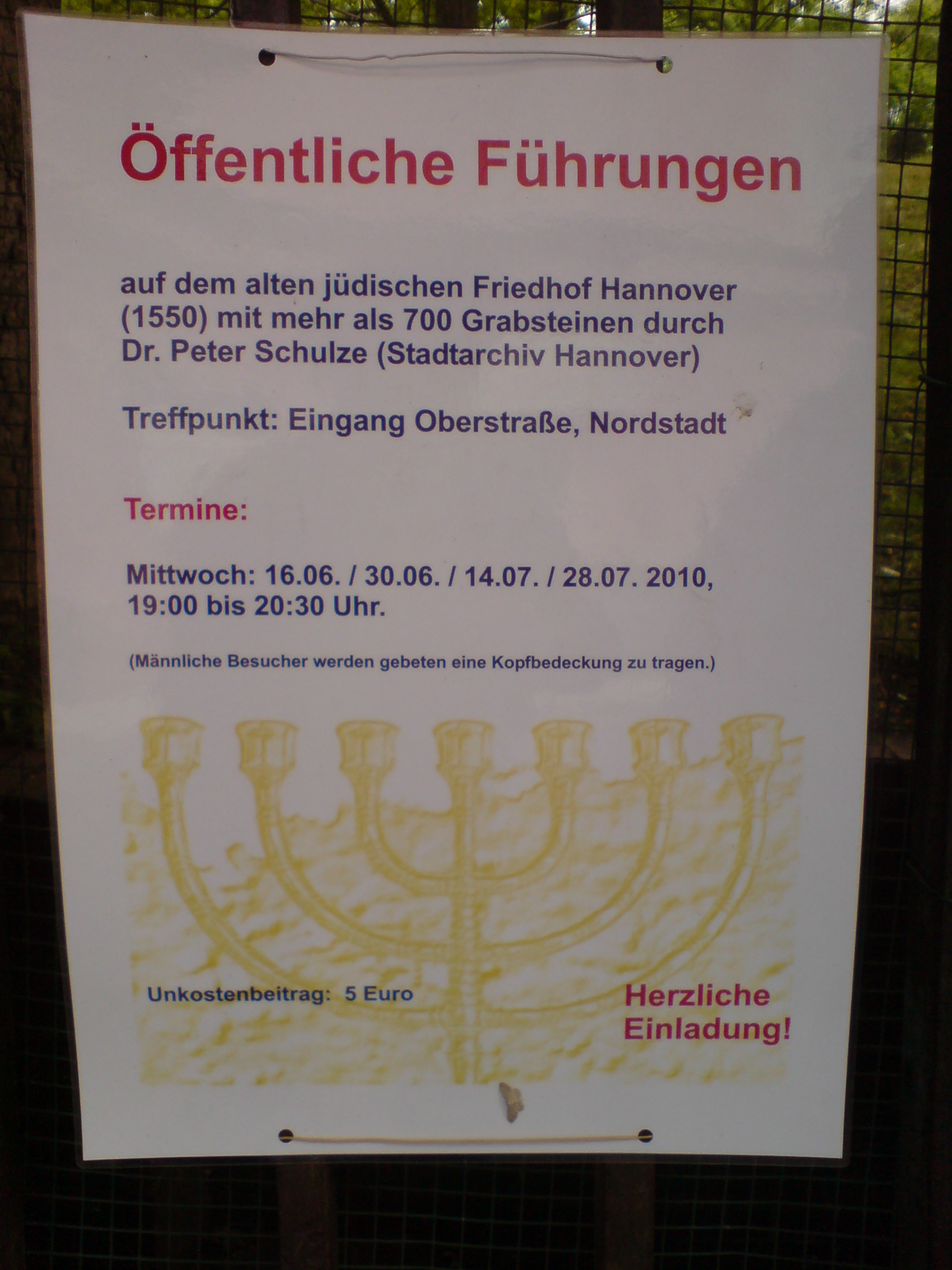 The Old Jewish Graveyard at the Oberstrasse: Guided tour and explainings by Peter Schulze, employee at the City Archiv of Hanover/Germany. More details: Please see german description